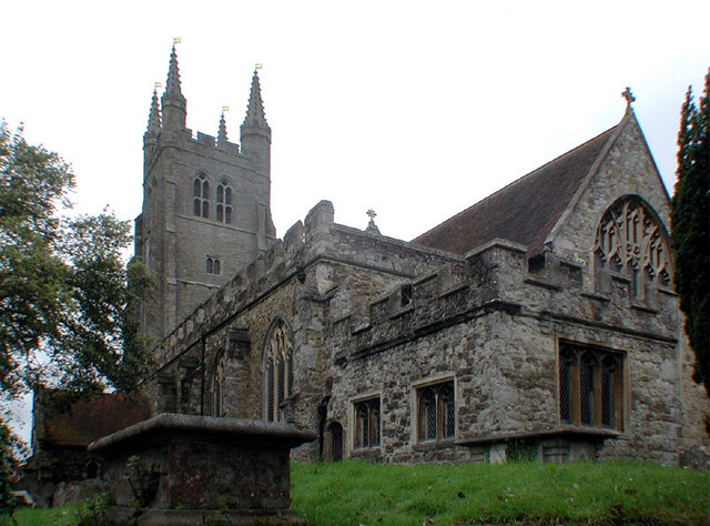 St Mildred's parish church, Tenterden, Kent, seen from the southeast